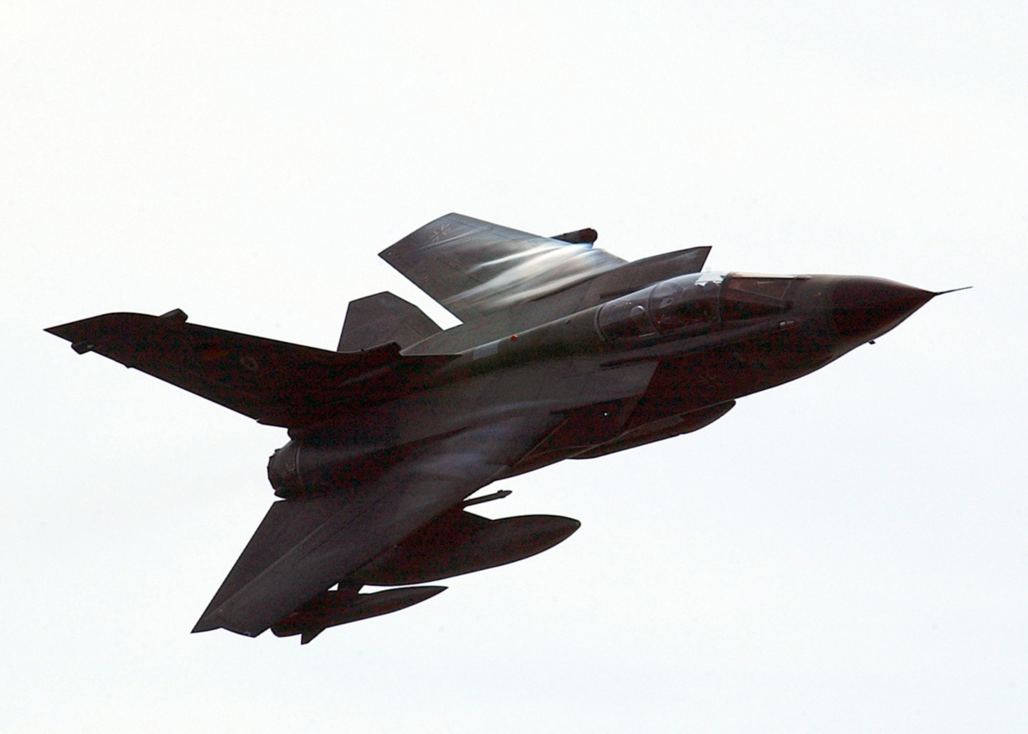 A German Panavia Tornado IDS from Marinefliegergeschwader 2 (2nd Naval Fighter Wing), flies over the U.S. Navy guided missile cruiser USS Vella Gulf (CG-72) during the annual maritime exercise Baltic Operations 2003 (BALTOPS).